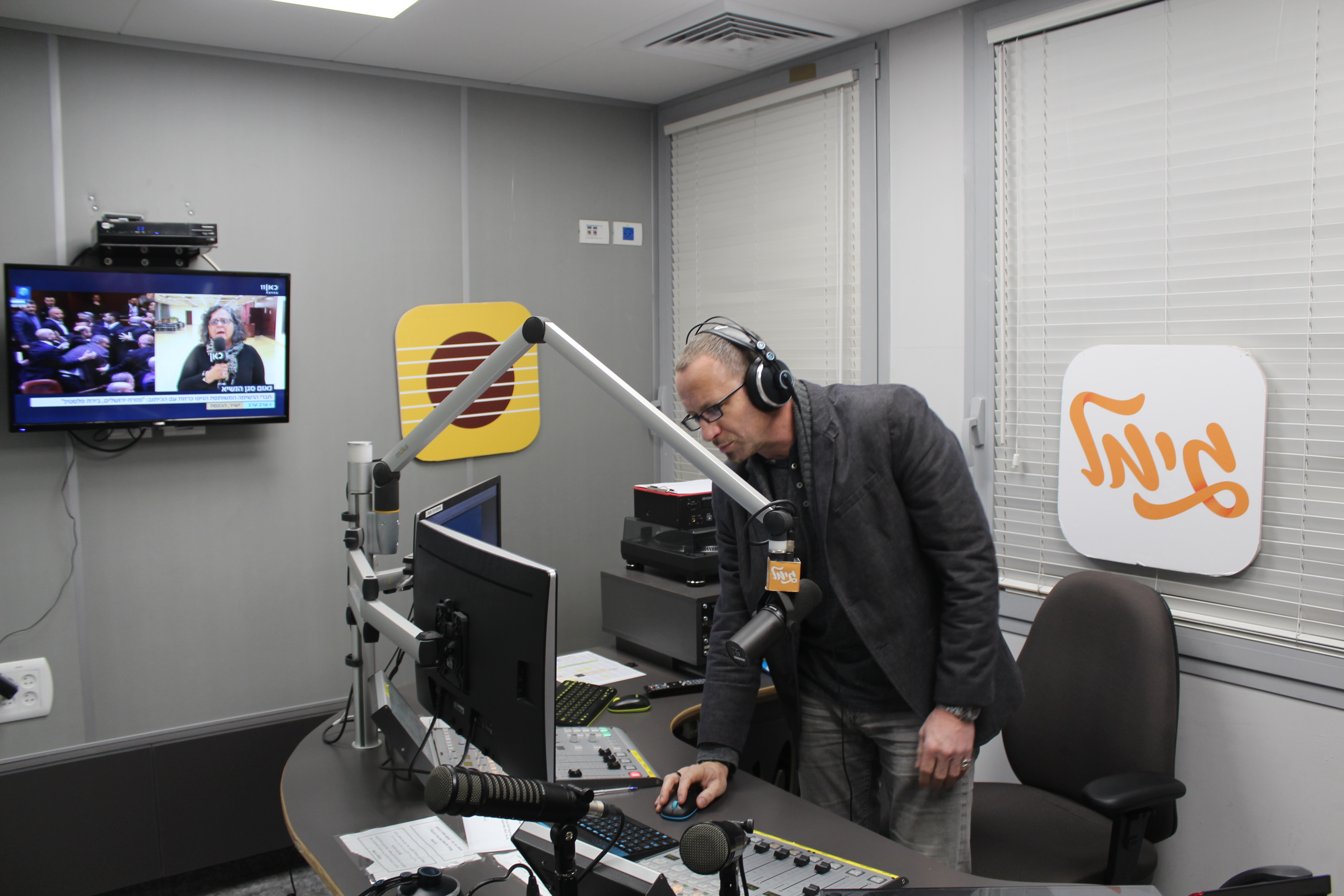 Control rooms of "Kan" radio studios, Israeli Broadcasting Corporation, Tel Aviv, Israel This image was taken as part of the Elef Millim project trip to the Israeli Public Broadcasting Corporation "Kan" offices and Control rooms, in Tel Aviv, in Israel which was held on Monday, 22 January 2018. To view all images uploaded as part of the Elef Millim Project